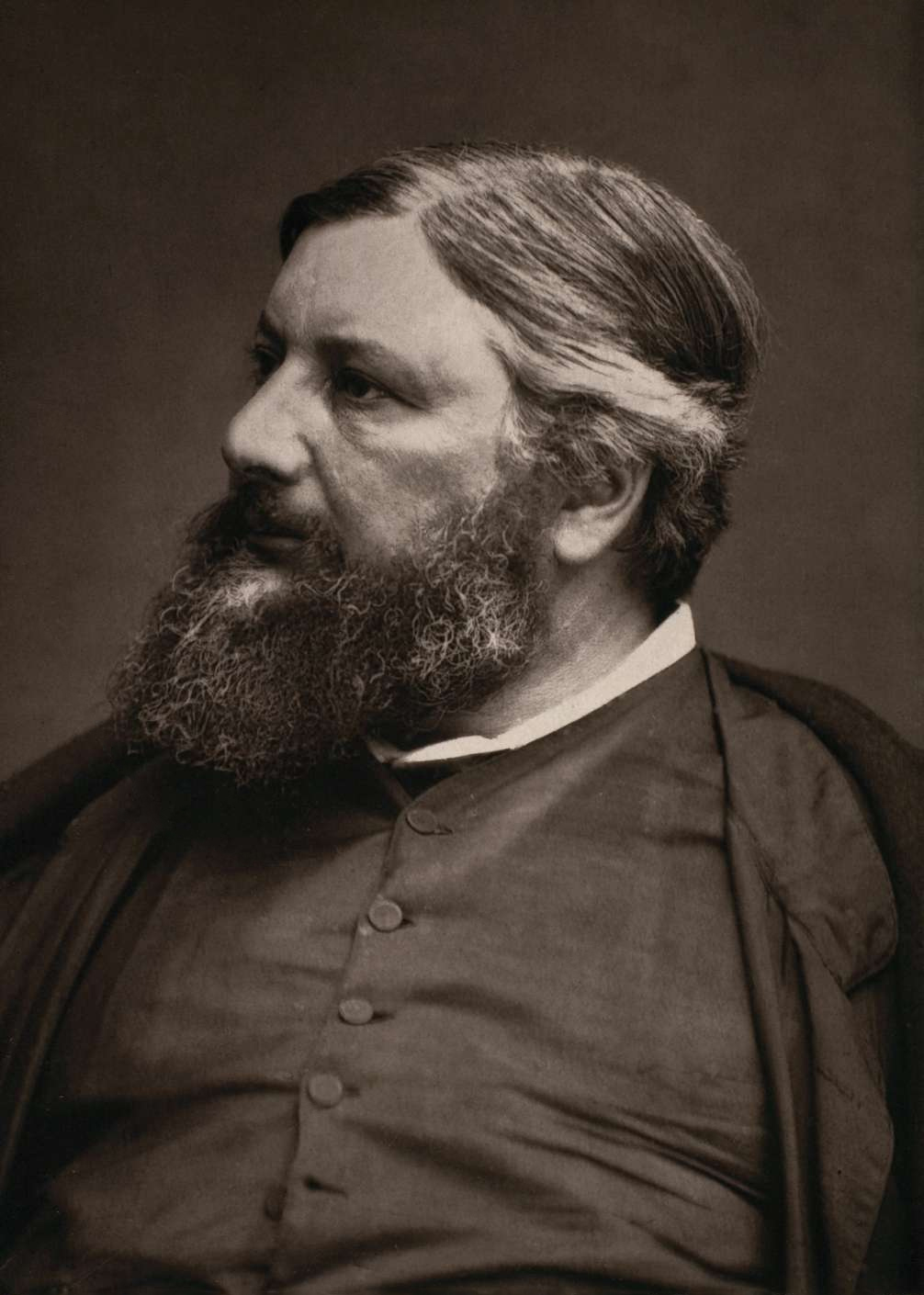 Woodburytype of Gustave Courbet